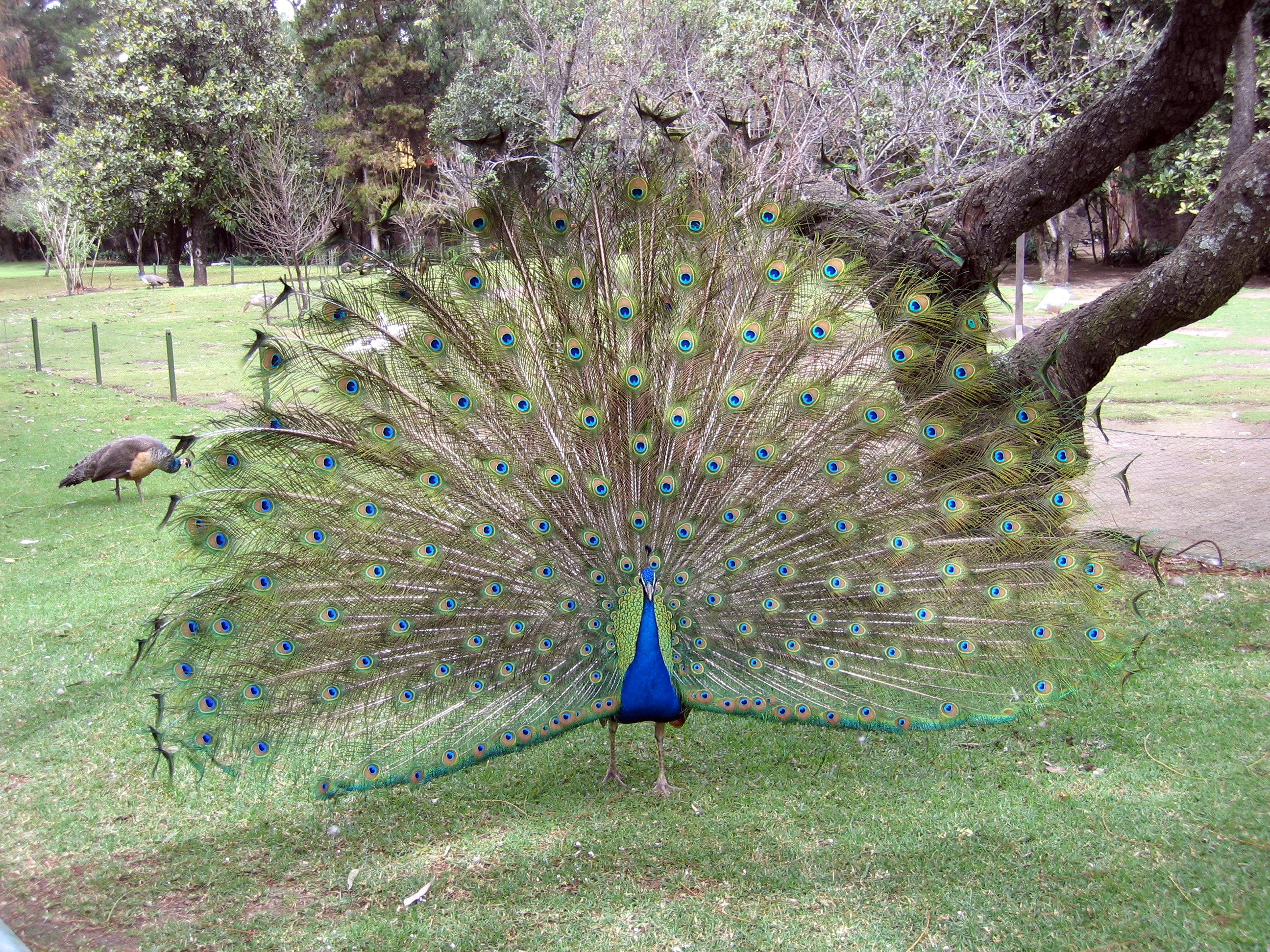 A Peacock